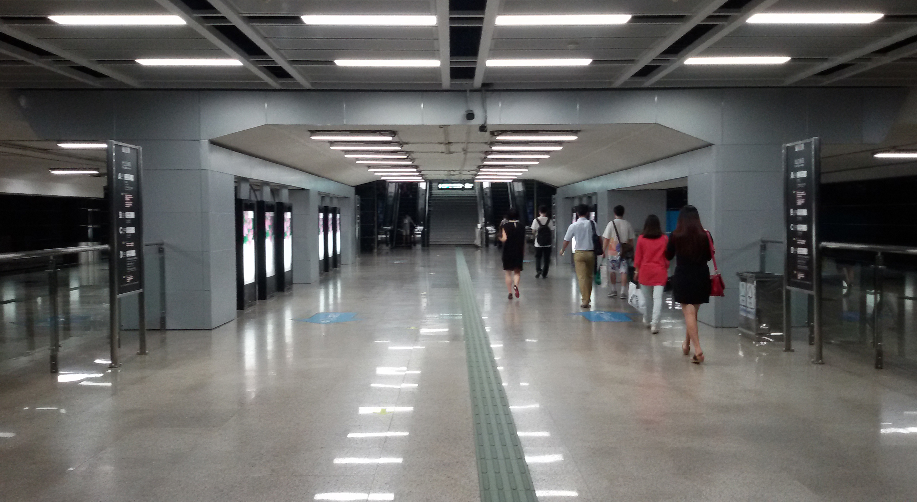 FREE connecting passage for Pazhou Station in Guangzhou Metro 粵語: 廣州地鐵，琶洲站嘅地下聯絡通道（喺免費區入面）。